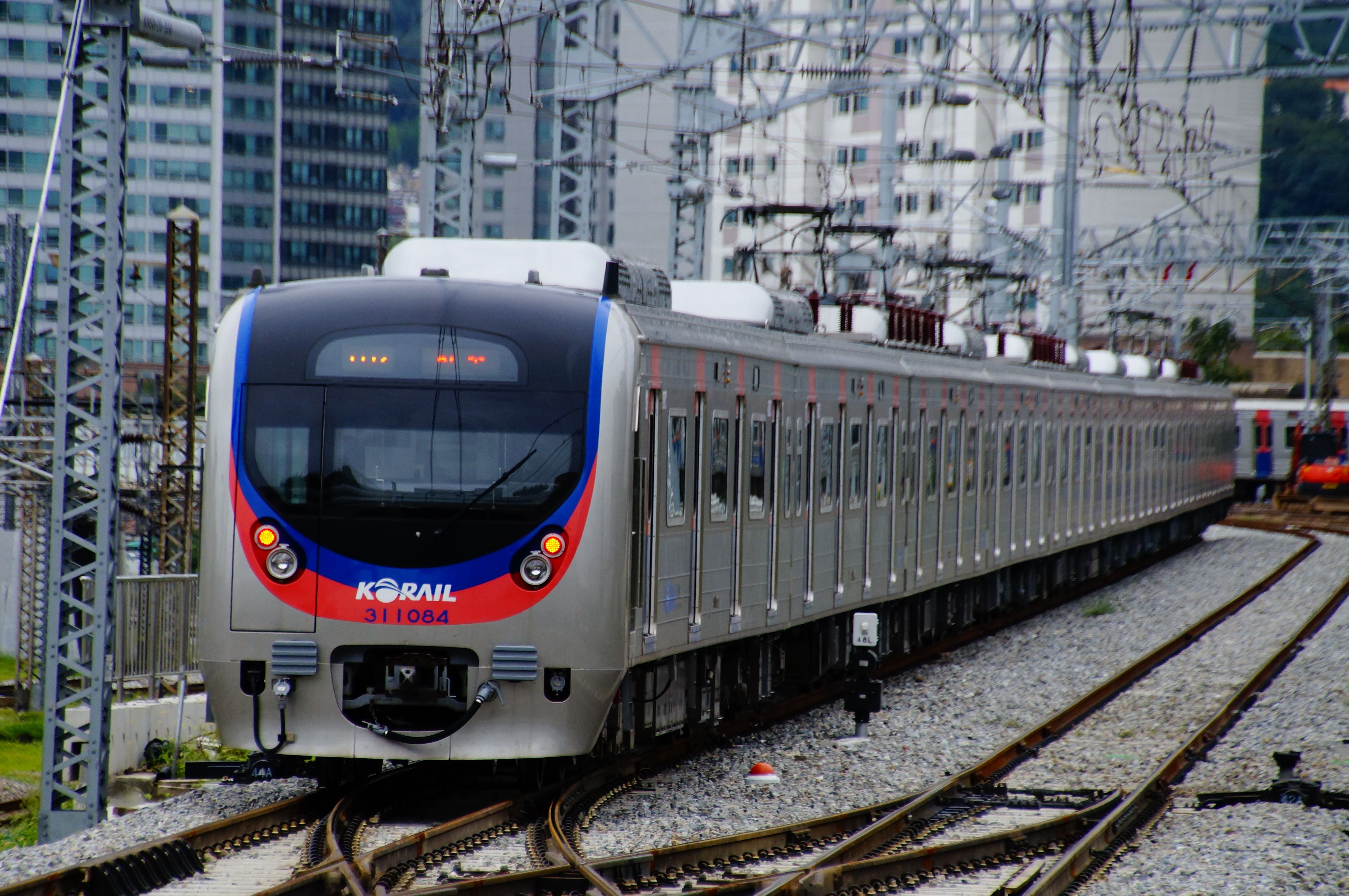 Korail Class 311000 (trainset 311x84) Line 1 Yongsan-Dongincheon express train leaving Yongsan.